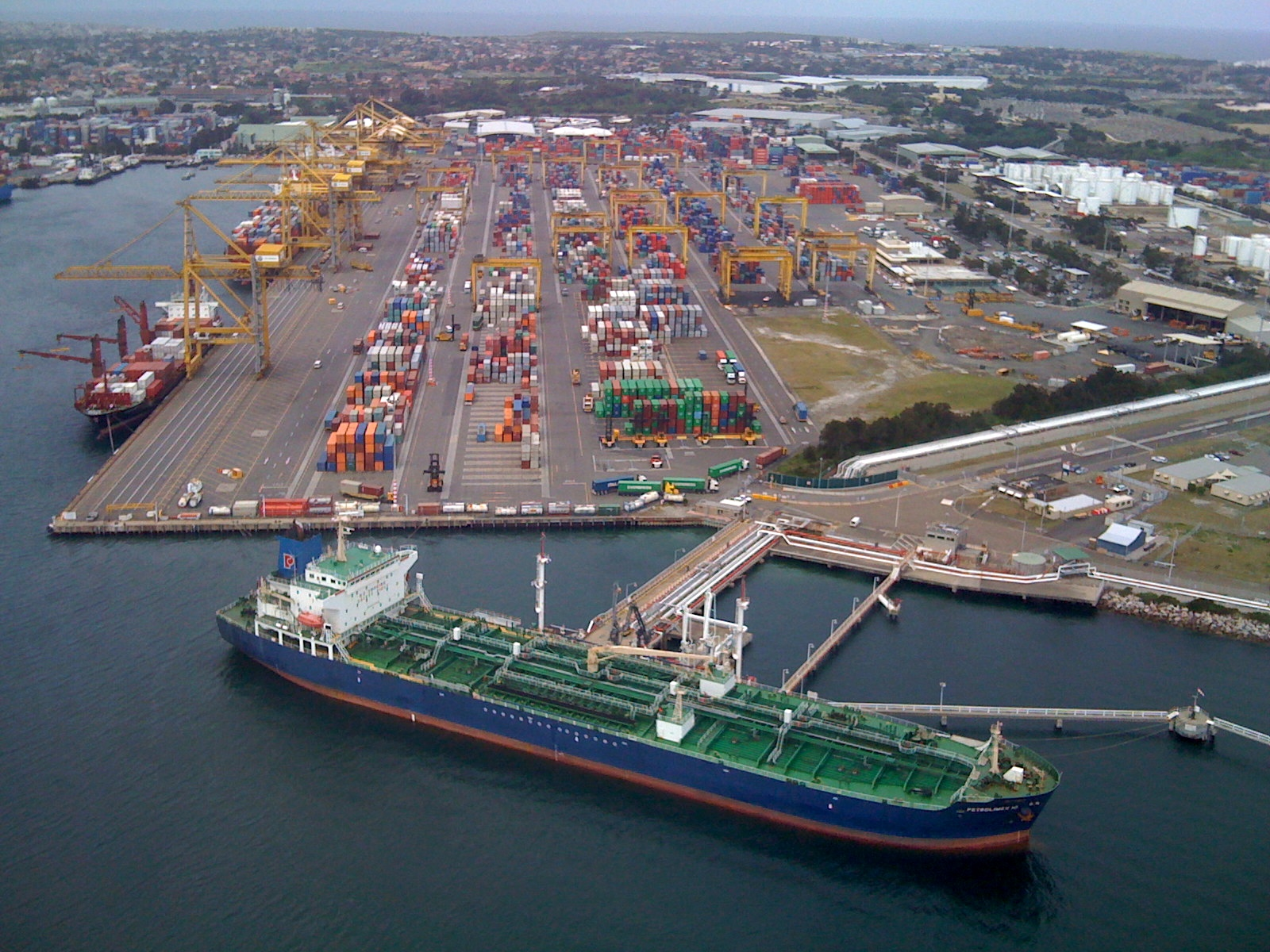 Sydney container port by air.